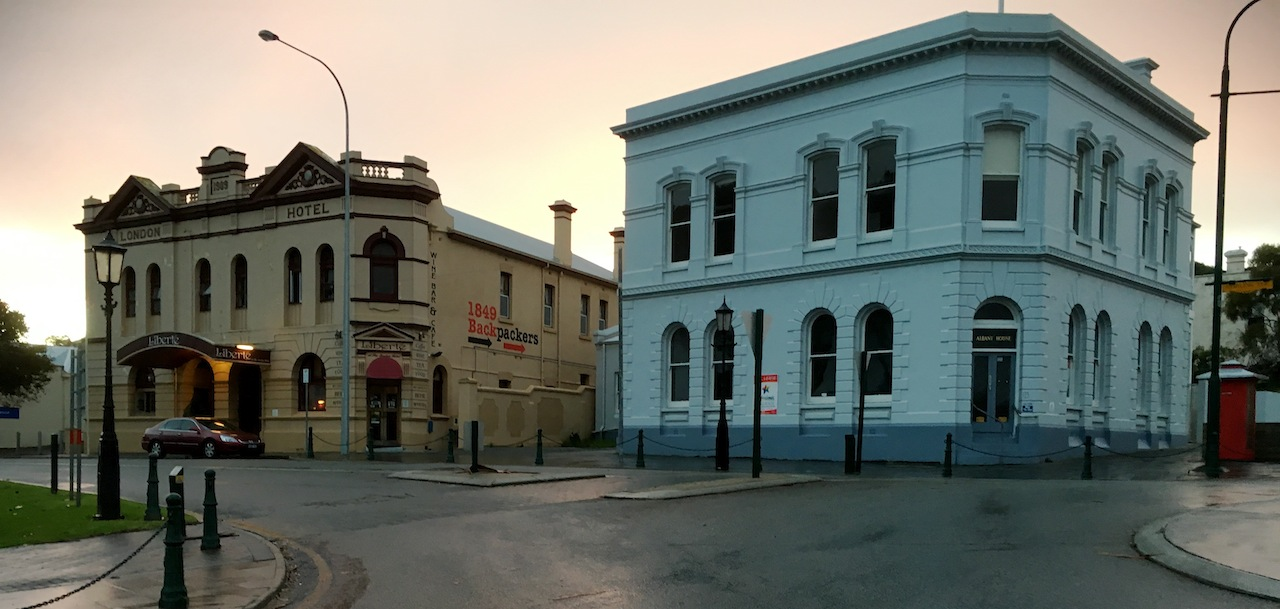 London Hotel from south east